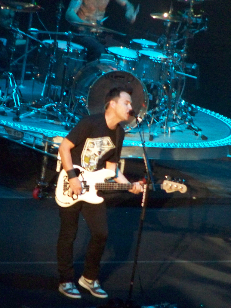 Mark Hoppus performing in Irvine, California on September 18, 2009.